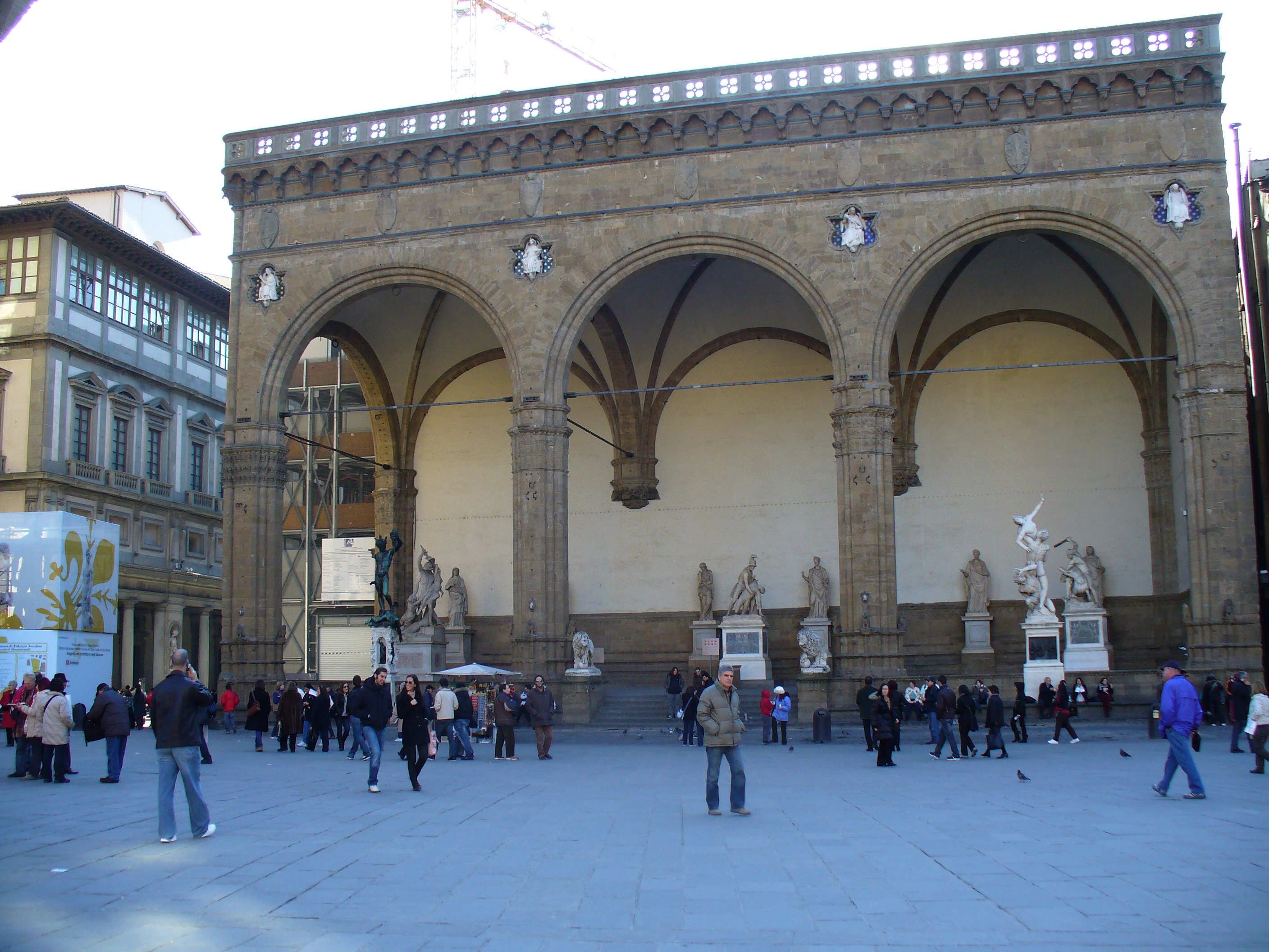 Loggia dei Lanzi Florence